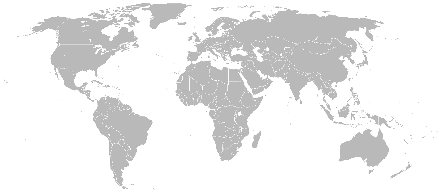 World Map, Detailed.